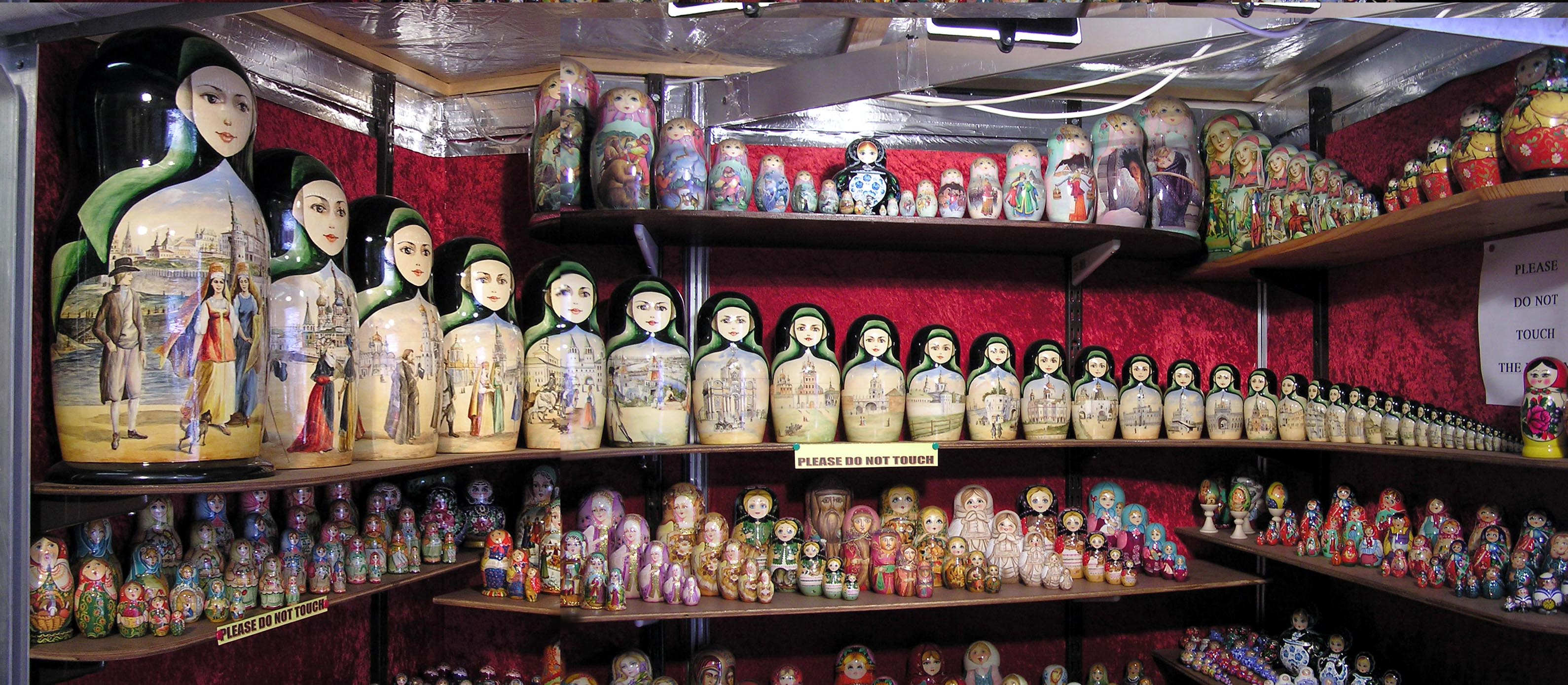 A huge Russian doll set in a Portobello Road shop, Notting Hill, London, England. The set has around 37 pieces (I didn't count them while I was there). Picture taken with the permission of the shop owner. Photographed by Adrian Pingstone in June 2005 and released to the public domain.